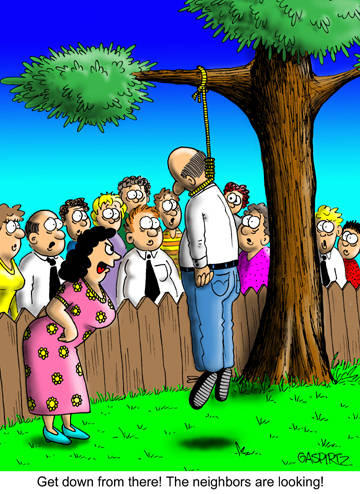 Cartoon of a man hanging from a tree while the neighbors are watching.